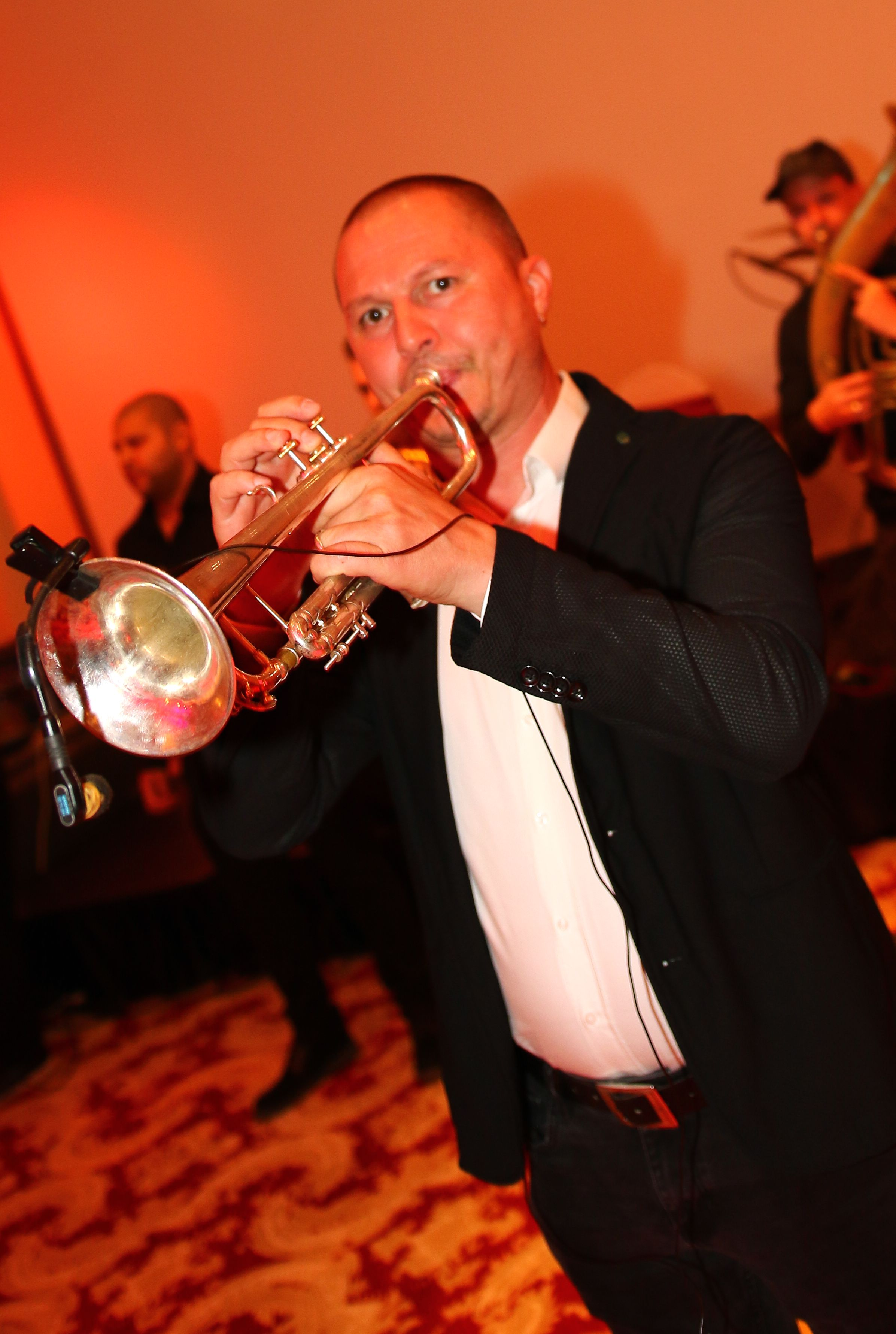 Yordan Yevchev - Bulgarian musician, a member of the Ku-Ku Band.